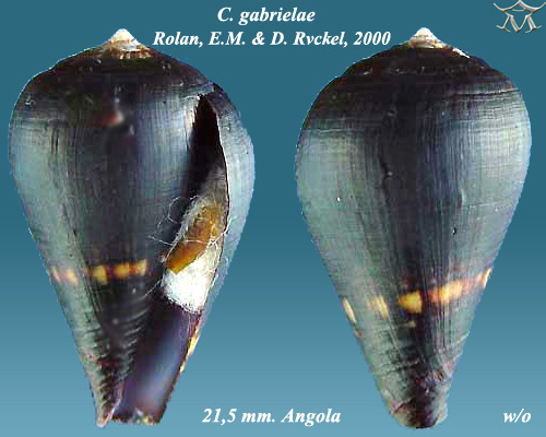 Conus negroides Kaicher, 1977 (synonym: Conus gabrielae 1